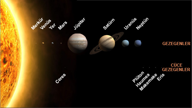 Turkish version of Solar system size scale file